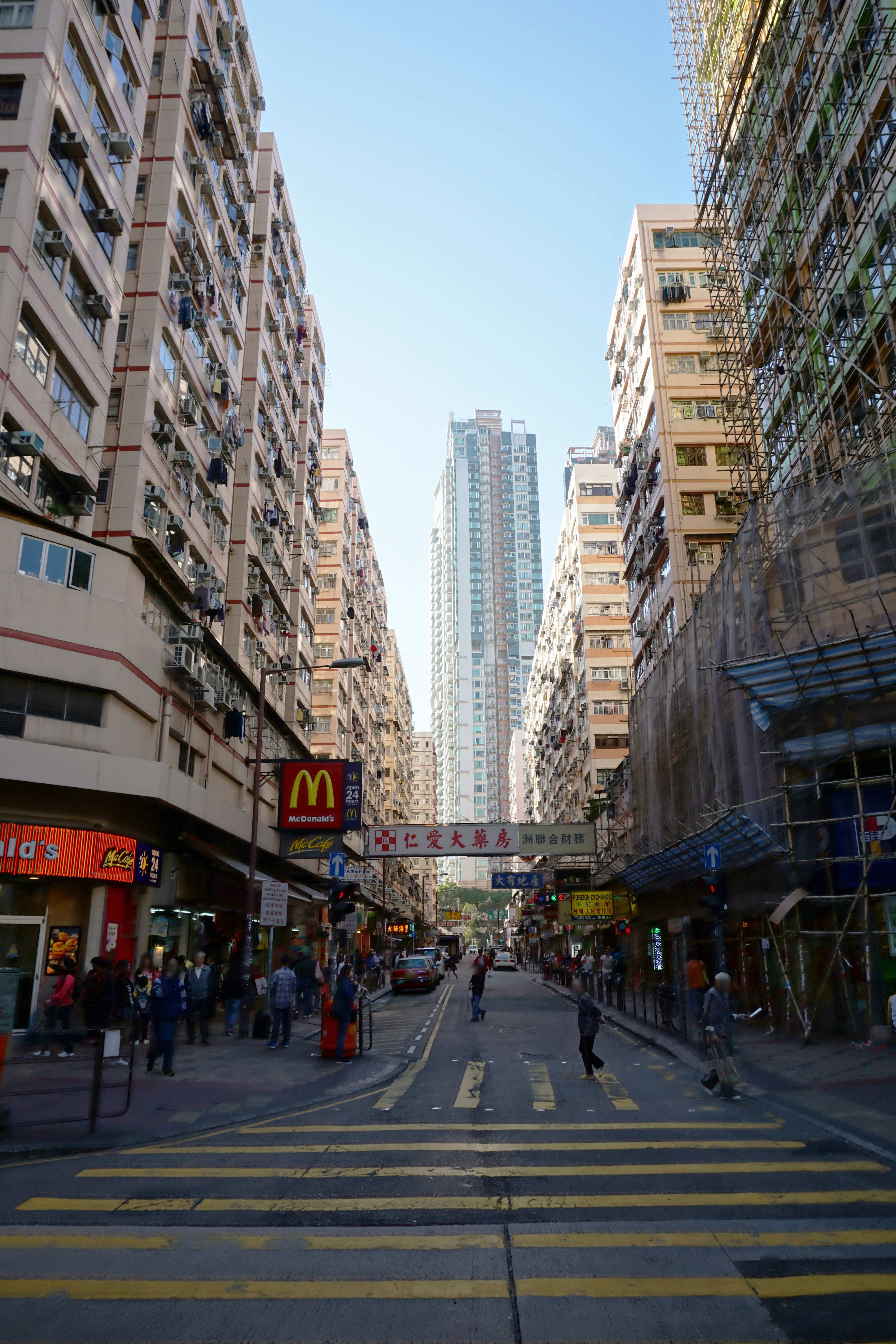 Ivy Street in Tai Kok Tsui, Hong Kong.